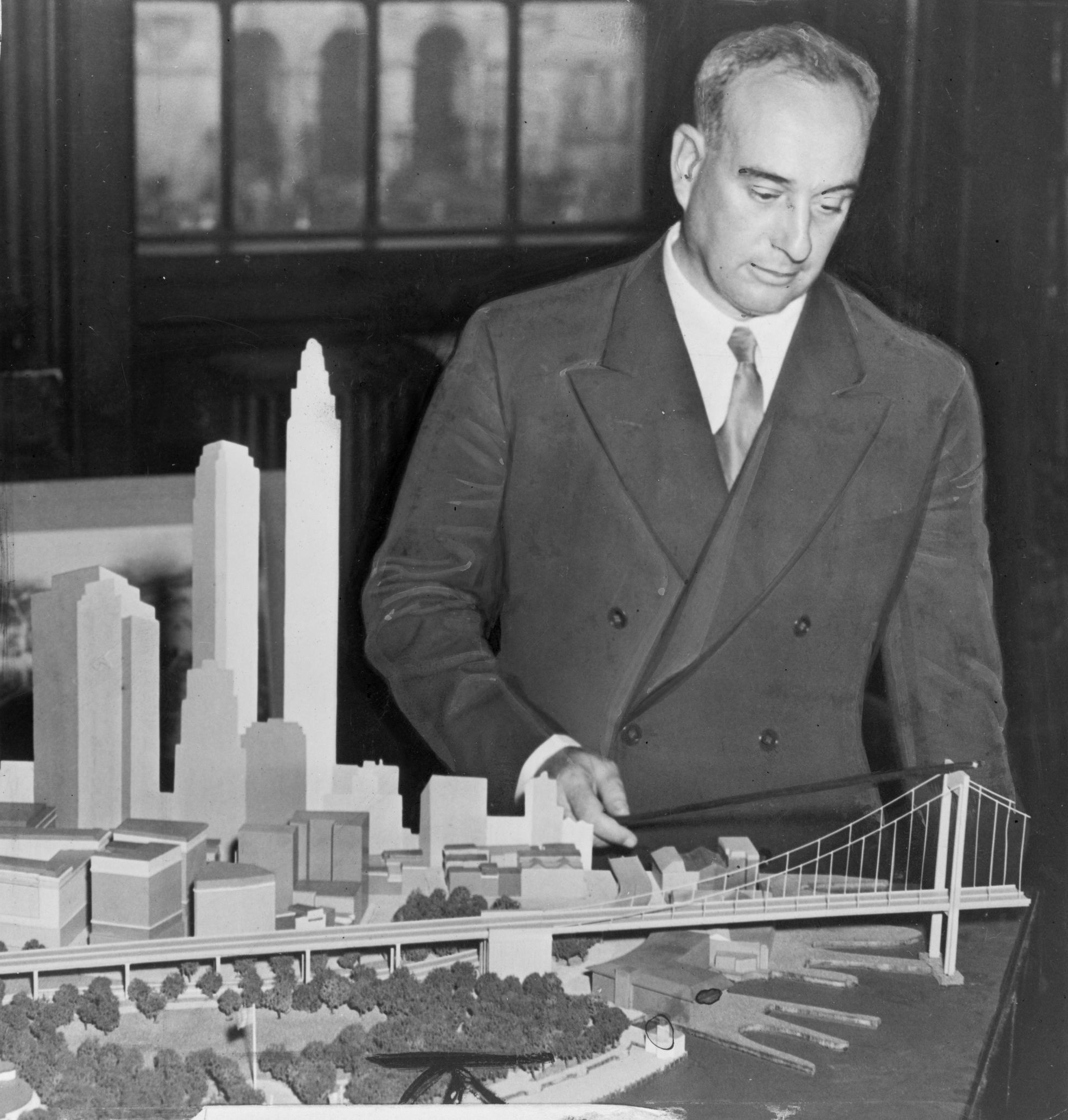 Robert Moses ( December 18 1888–July 29 1981) was the "master builder" of mid-20th century New York City, Long Island, and other suburbs. As the shaper of a modern city, he is sometimes compared to Baron Haussmann of Second Empire Paris, and he was easily the most polarizing figure in the history of urban planning in the United States. Although he never held elected office, Moses was arguably the most powerful person in New York City government from the 1930s to the 1950s. He literally changed shorelines, built roadways in the sky, and transformed vibrant neighborhoods forever. His decisions favoring highways over public transport formed the modern suburbs of Long Island and influenced a generation of engineers, architects, and urban planners who spread his philosophies across the nation.